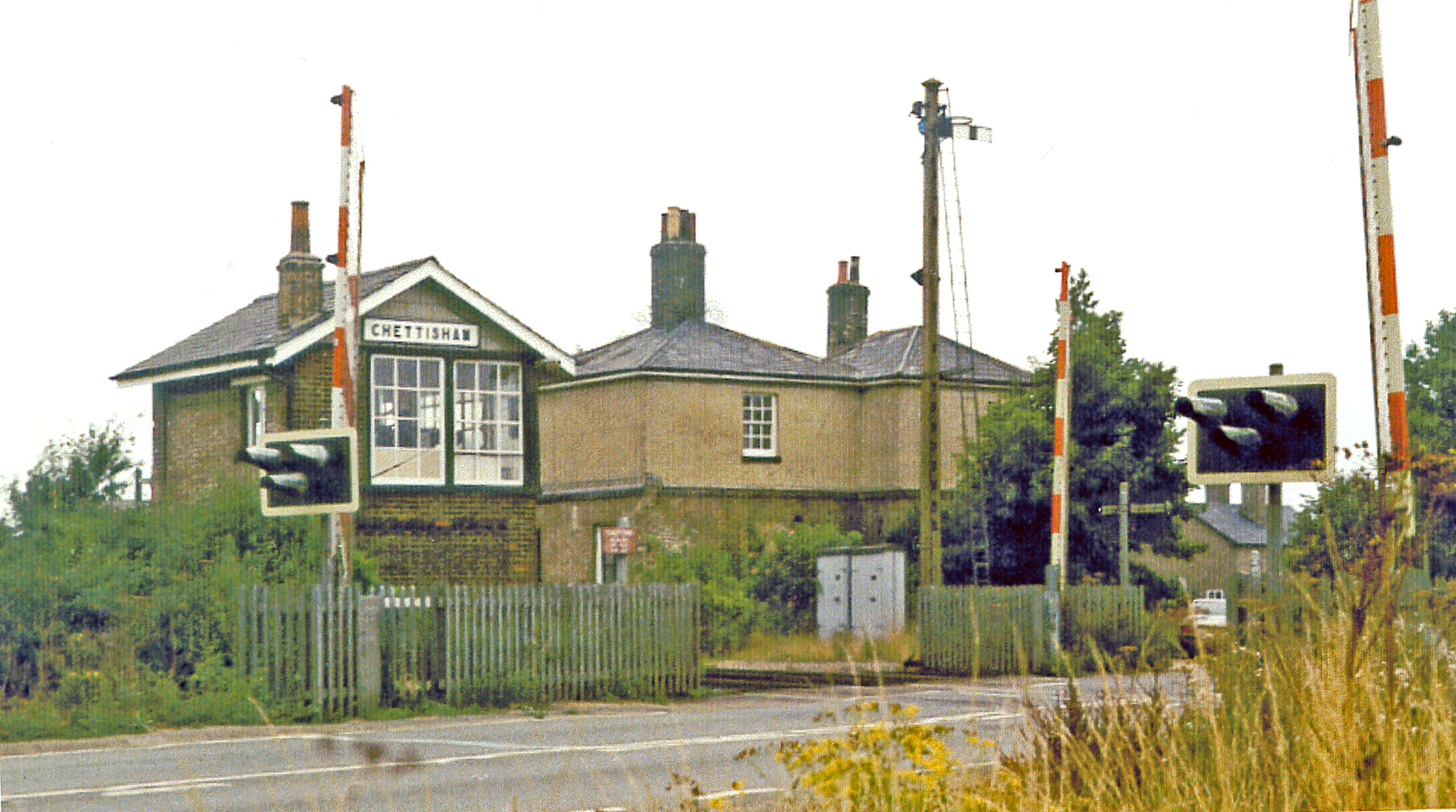 Chettisham station (remains), 1983. View NE at level-crossing of A10 north of Ely: ex-GER Ely etc. - March etc. main line. The line is still very much alive but the station had been closed from 13/6/60 (goods 13/7/64). The signalbox remains, to oversee a controlled crossing on a major trunk road.